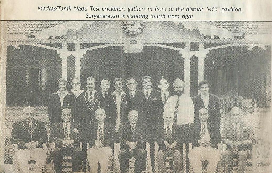 Madras /Tamilnadu Test Cricketers gathers in front of the historic MCC Pavilion M. Suryanarayan is standing fourth from right